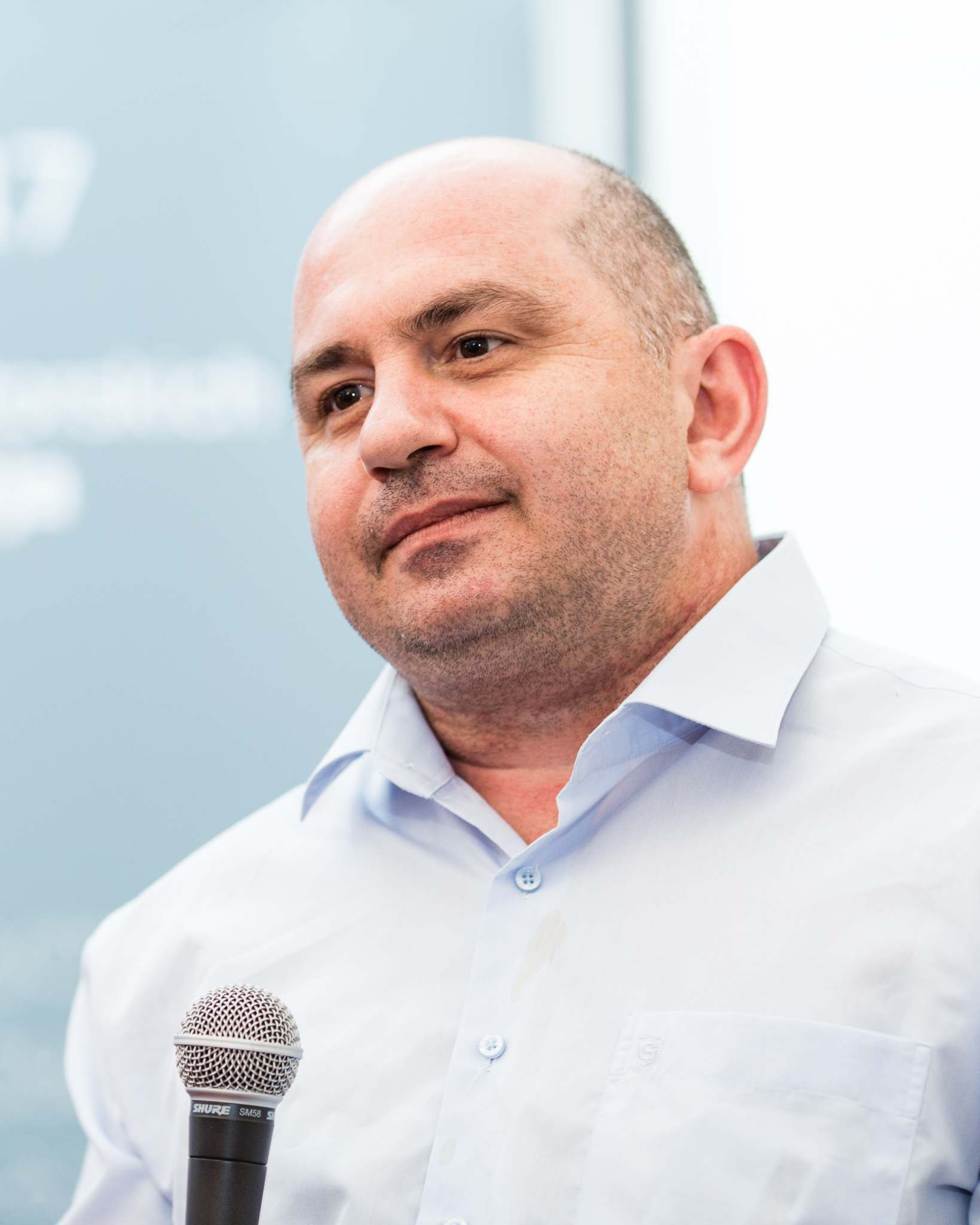 Giorgi Lobzhanidze on Authors’ Reading Month 2017, Wrocław, Poland